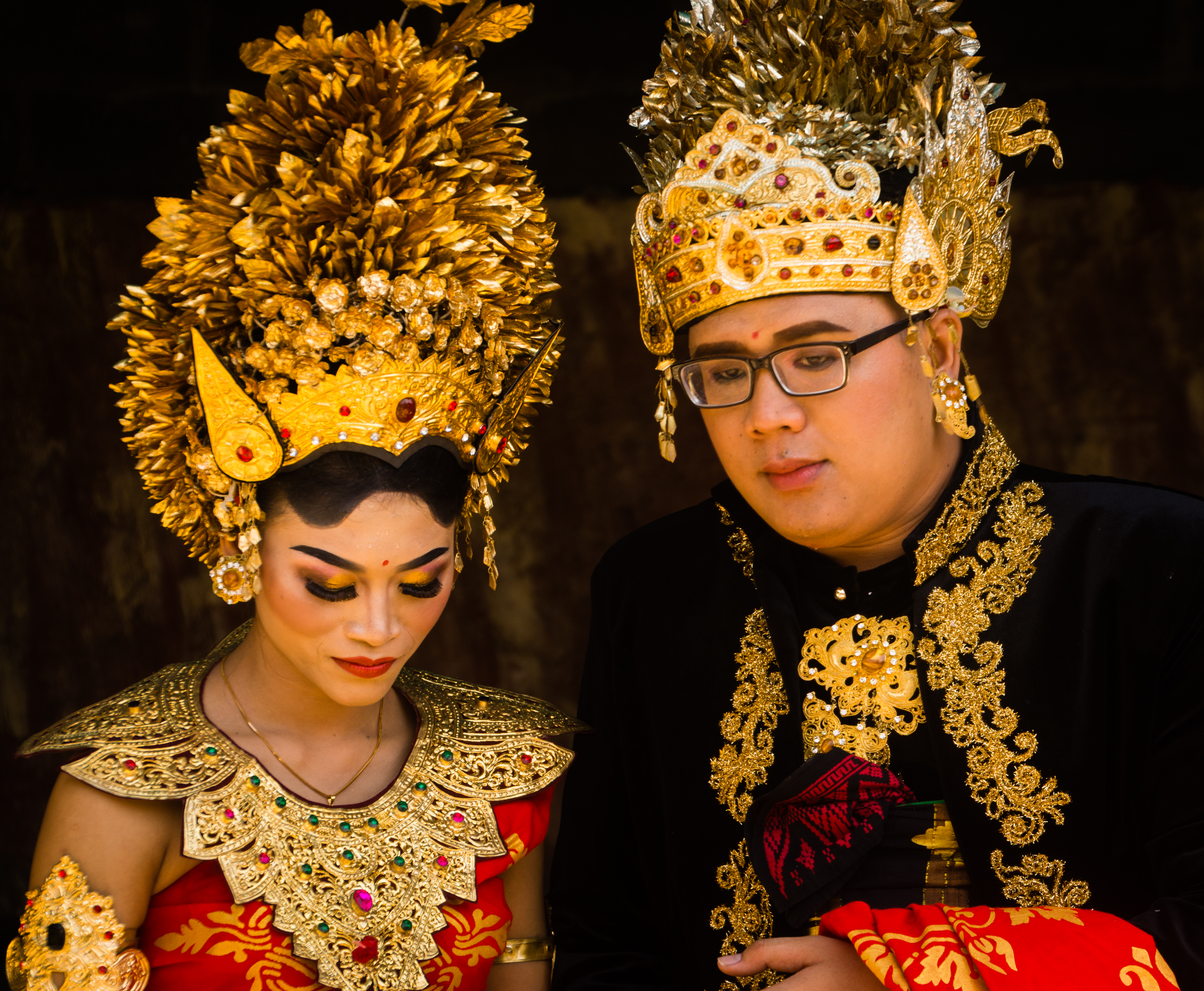 A close-up of the bride and groom during their wedding ceremony in Bali.